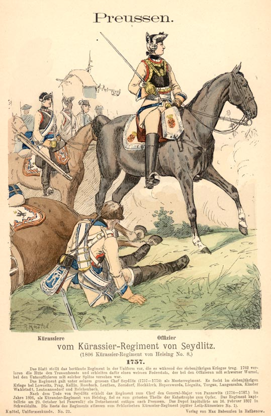 Prussia: Cuirassier and officer of von Seydlitz's Regiment of Cuirassiers, 1757